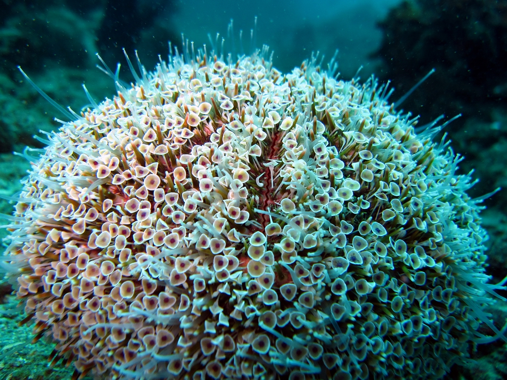 This flower urchin (Toxopneustes pileolus) was found at the south shore of Long-dong Bay, a famous diving site located at northeast coast, TAIWAN. The photo was taken by Vincent C. Chen, one of the regular contributors to EZDive magazine, at July 3, 2010.